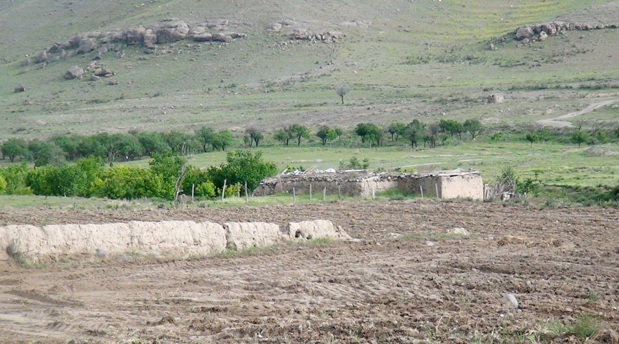 طبیعت روستای تورامون ممقان